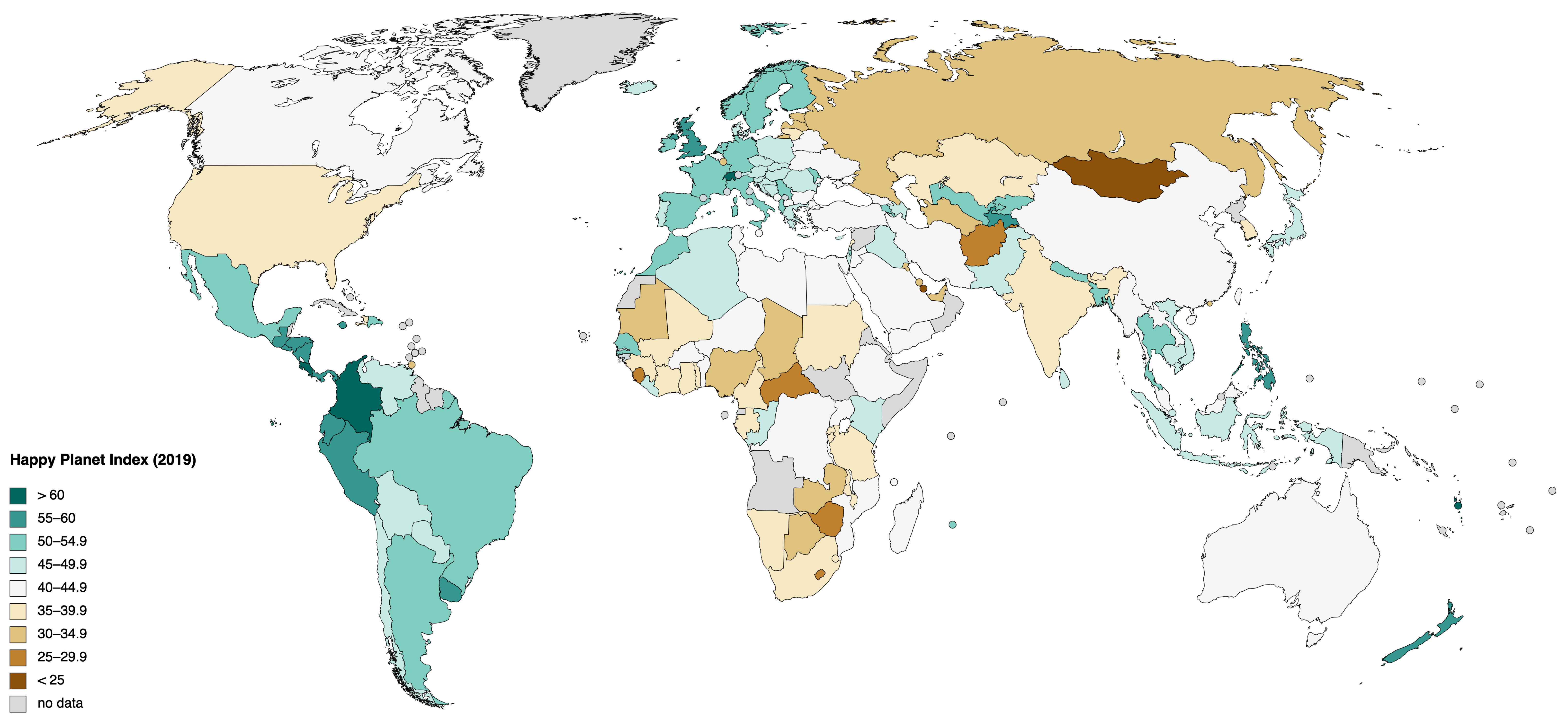 Based on BlankMap-World-v4.png, and earlier version of happy_planet.png, re-coloured for Happy Planet Index (previous colours were in no logical sequence). Colour signifies Highest rank through to lowest rank; grey indicates Information unavailable .